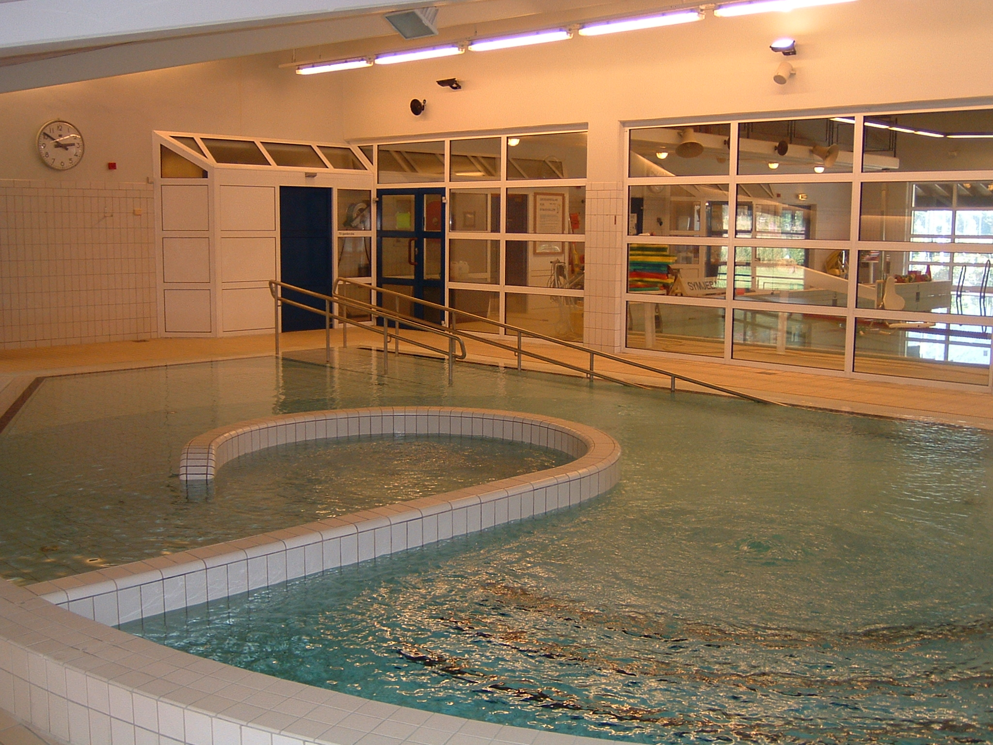 A picture from Forsand Kulturhus